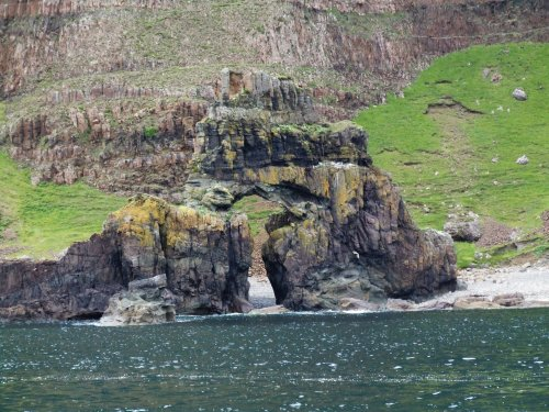 Carsaig Arches Extraordinary arch formations in isolated rocks at the foot of the towering lava cliffs of South Mull.